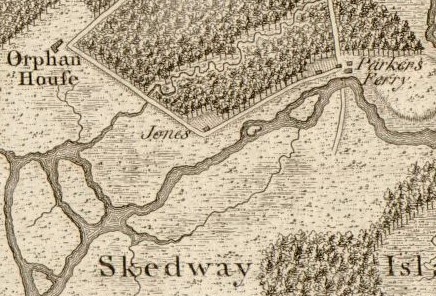 Detail of the Skidaway Narrows from Archibald Campbell's 1780 "Sketch of the northern frontiers of Georgia, extending from the mouth of the River Savannah to the town of Augusta". The map was engraved by William Faden. The map shows George Whitefield's Bethesda Orphan House, the Wormsloe Plantation (labelled simply as "Jones" after Wormsloe's builder, Noble Jones), and the Isle of Hope-Skidaway Island ferry operated by Henry Parker.